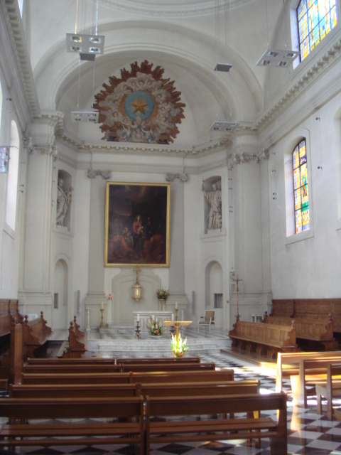 Chapel of the MEP